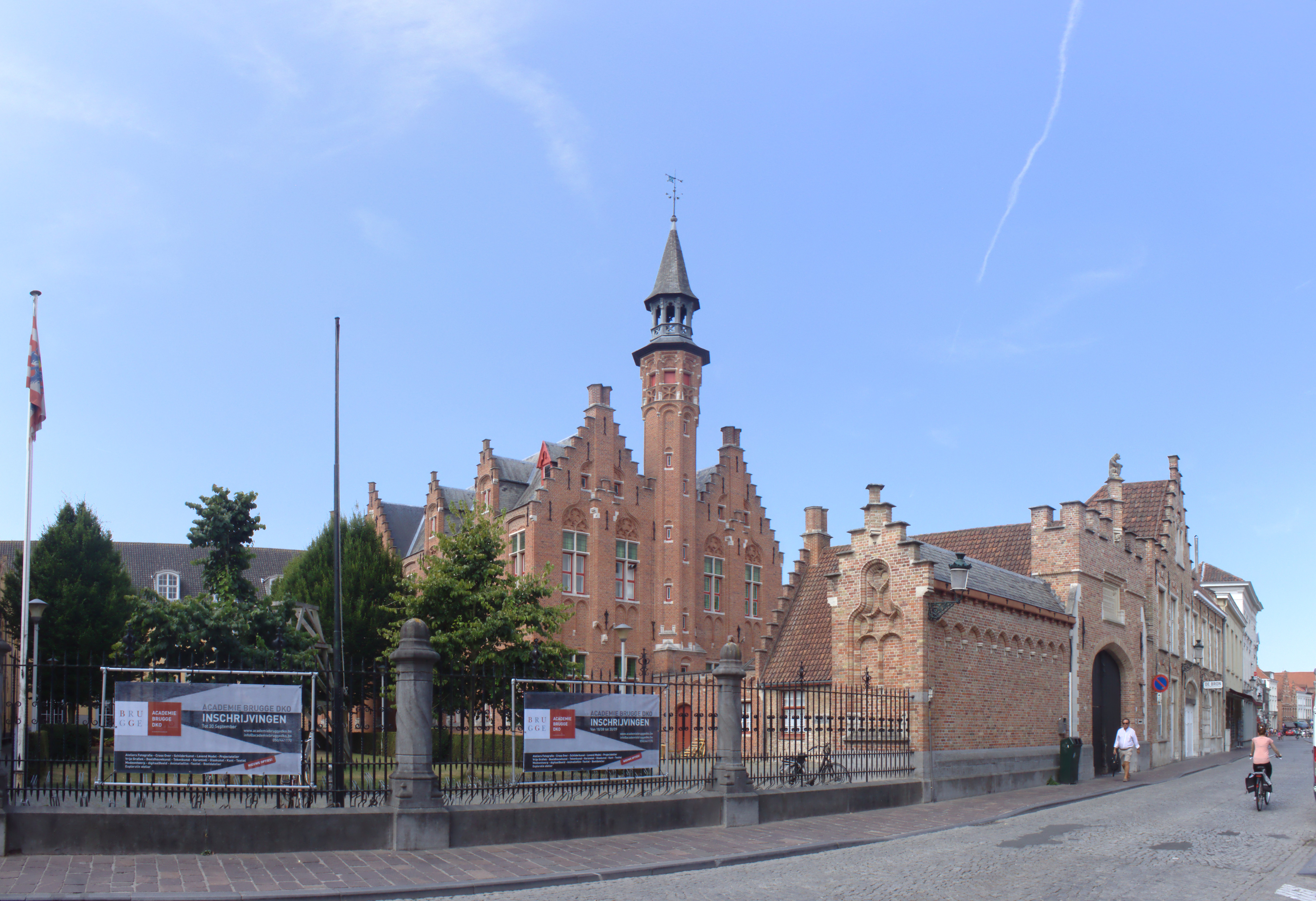 State academy ot fine arts in Brugge, Belgium